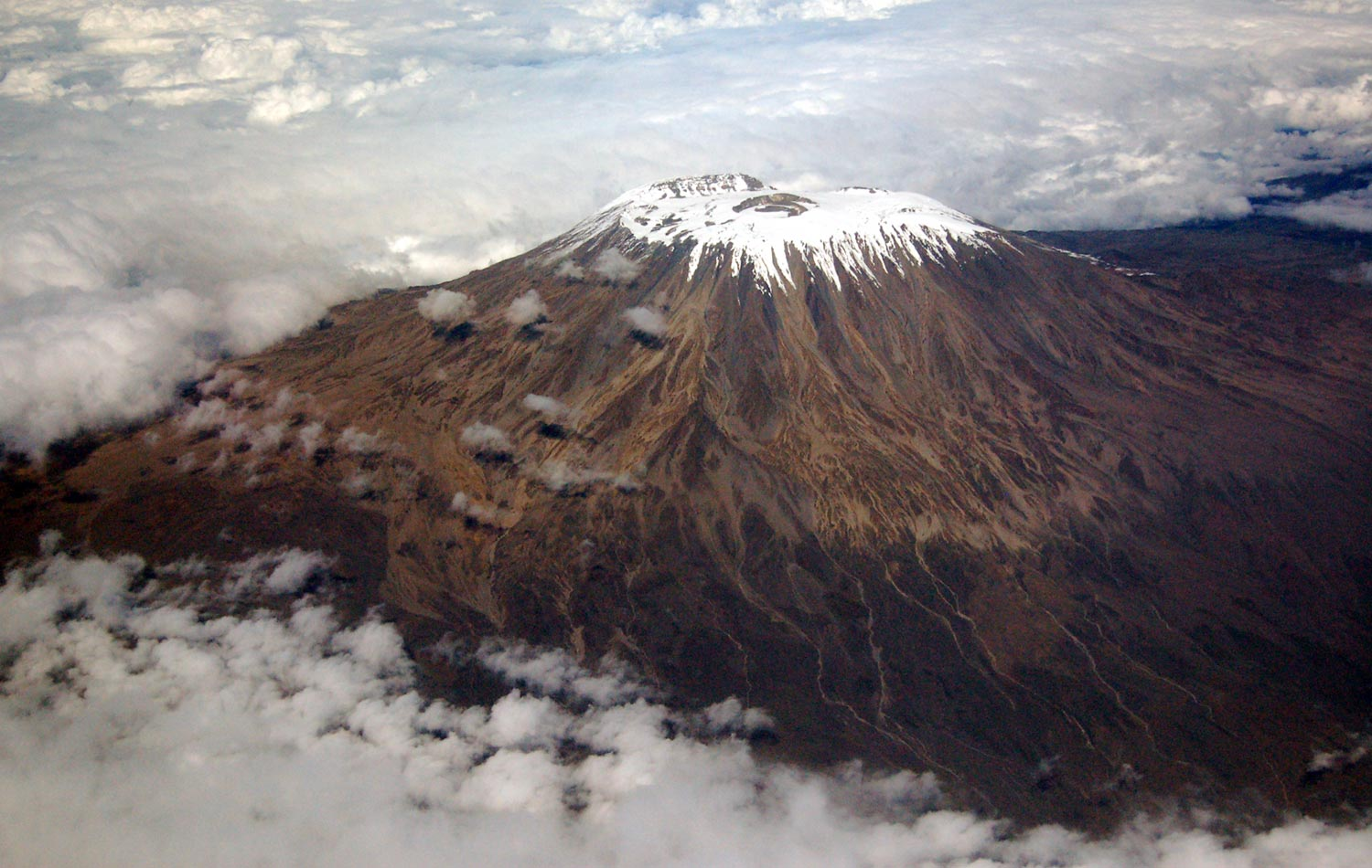 Kilma'njaro, captured out the window of a flight from Dar es Salaam.